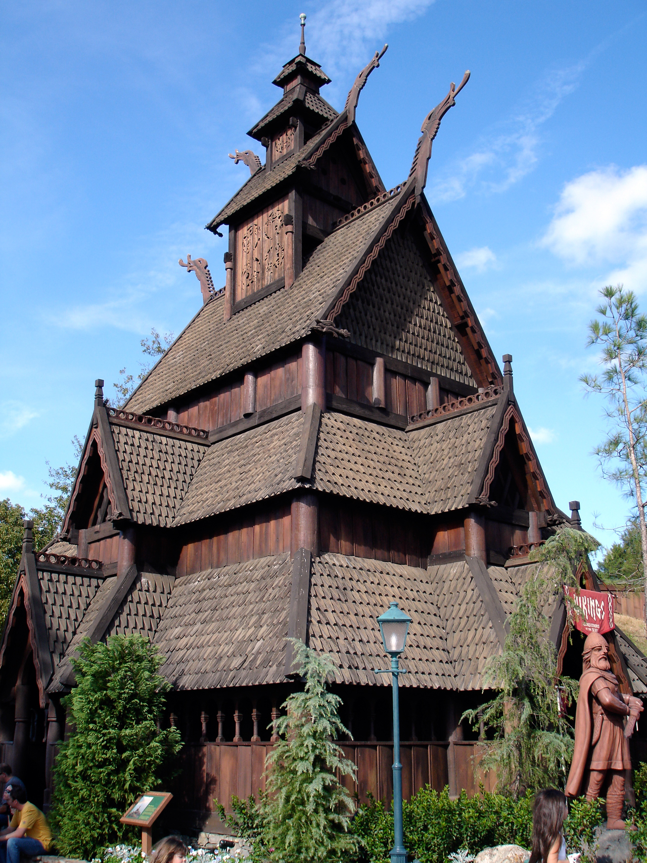 This is a replica of the Gol Stave church found in the Norwegian Folk Museum in Oslo, Norway. These medieval wooden churches were once common across northern Europe; today, only about 30 remain.